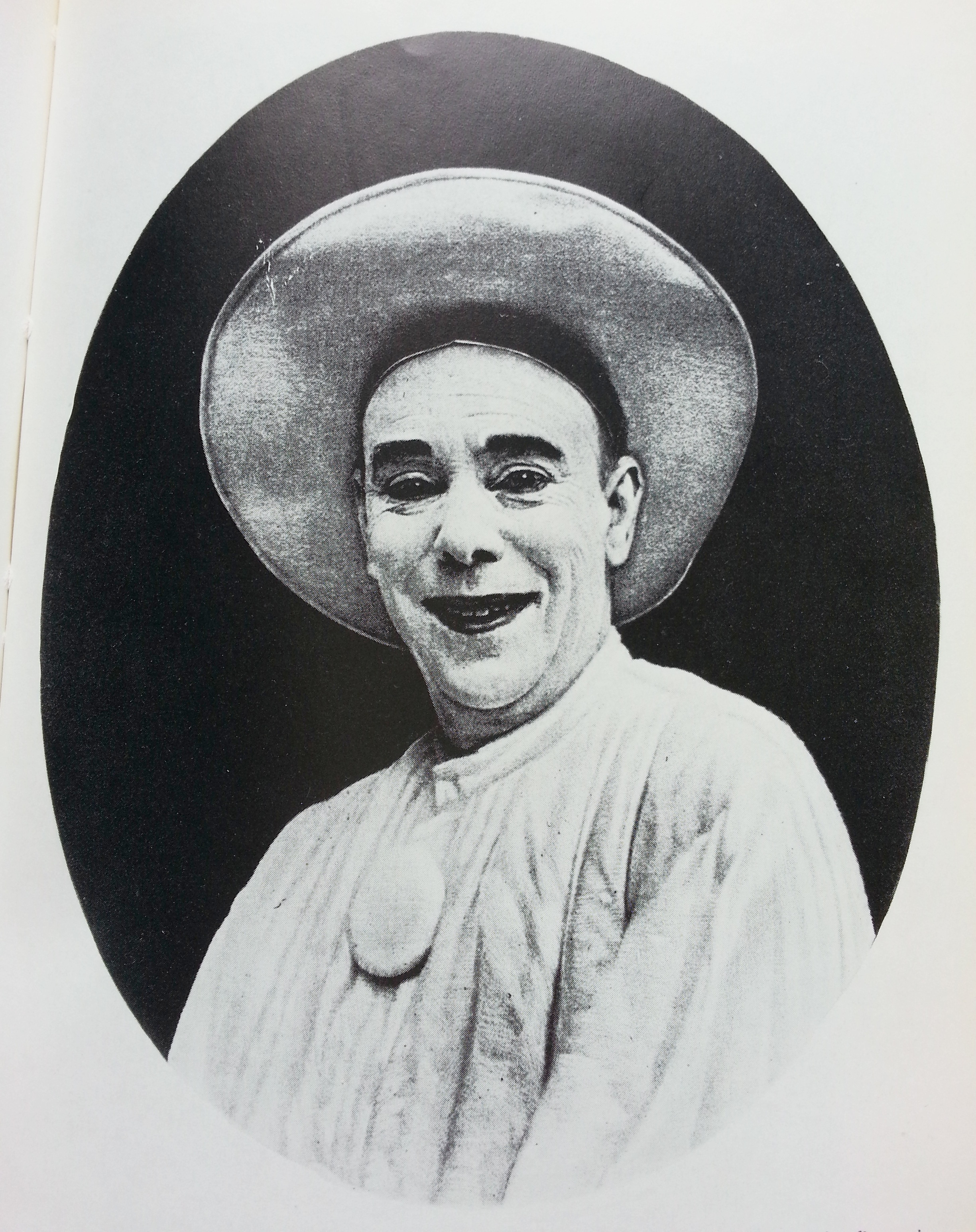 Photo of Raoul de Najac (mime) dressed as white-faced Pierrot, in white blouse and round white hat: oval image.